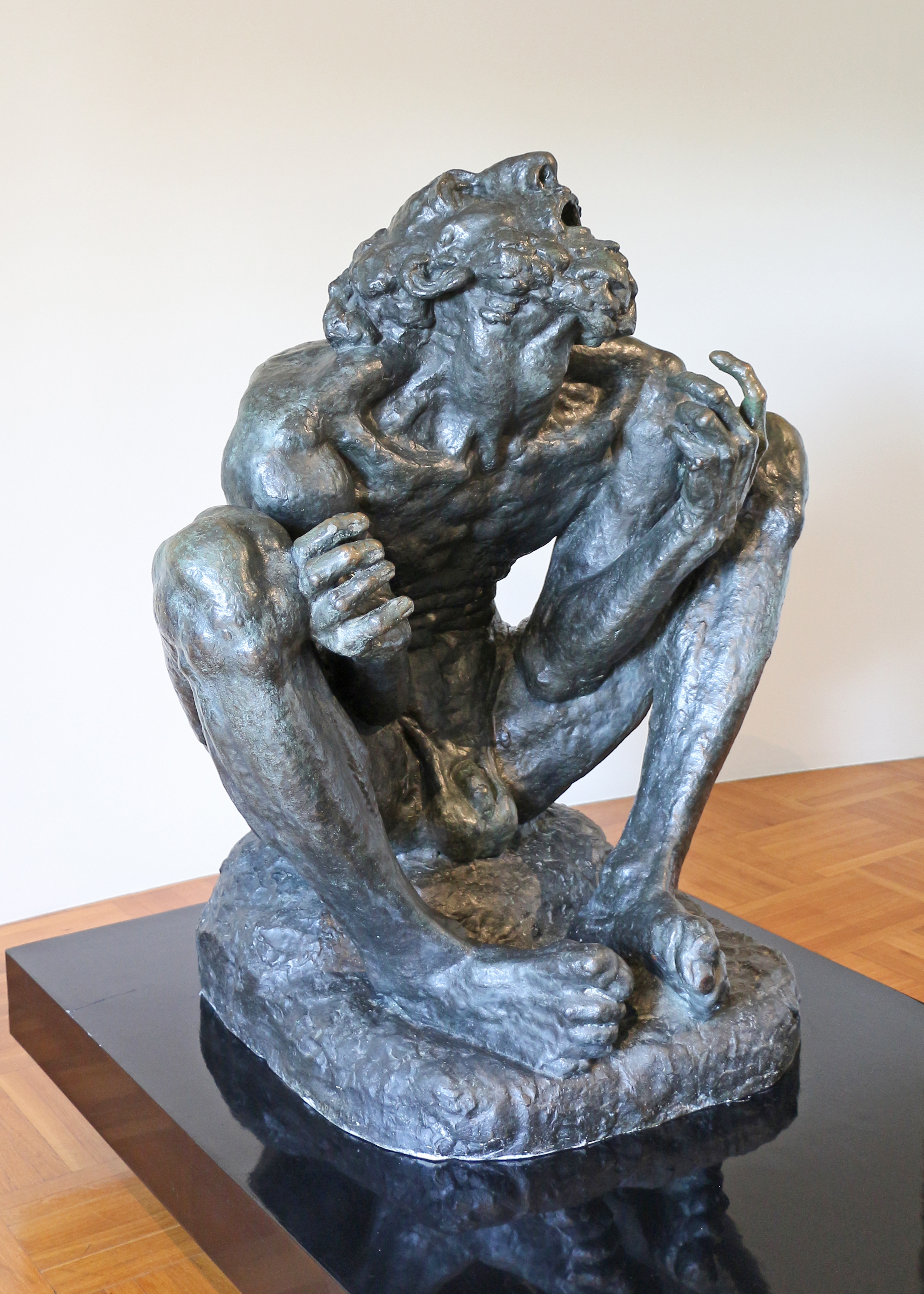 Sculpture "Job" in Ivan Meštrović Gallery, Split, Croatia